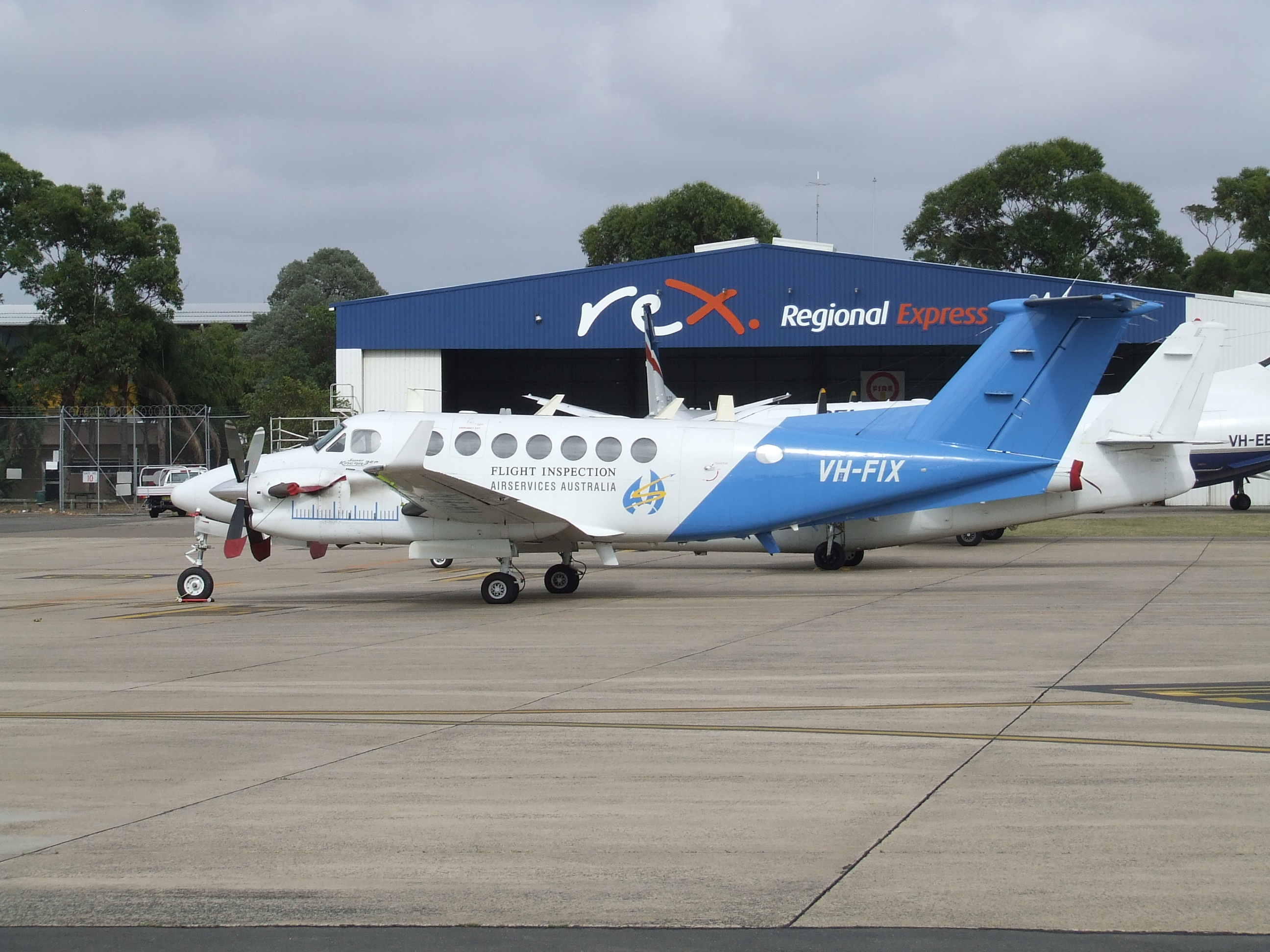 Pearl Aviation Beechcraft B300 King Air 350 VH-FIX